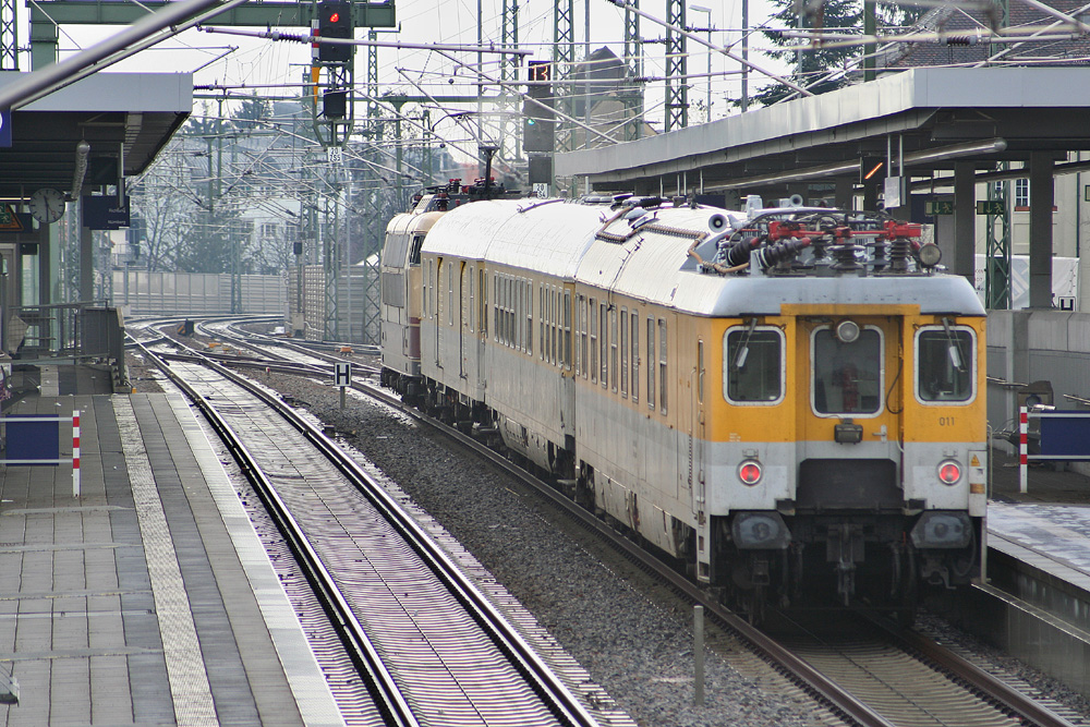 A sonic measurement train heading through the railway station Ingolstadt Nord